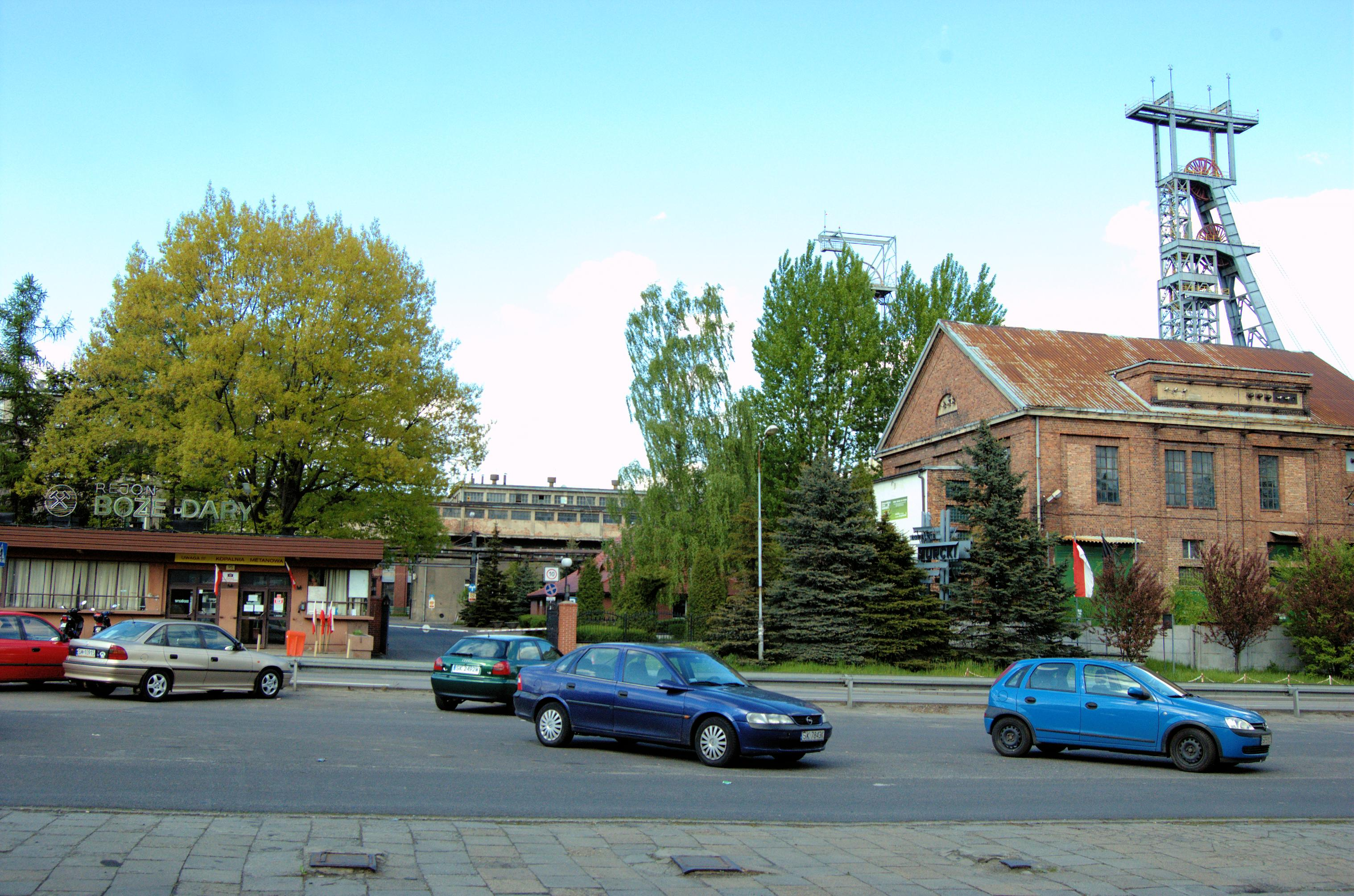 The Murcki Mine is located in the quiet south part of the city, in small town districts surrounded by forests. It seems much tidier than the other coal mines I've seen. What's personally interesting for me - the mine would have been flooded and destroyed during the german evacuation in World War II if it wasn't for my grand-grand father Augustyn who operated the water pumps.